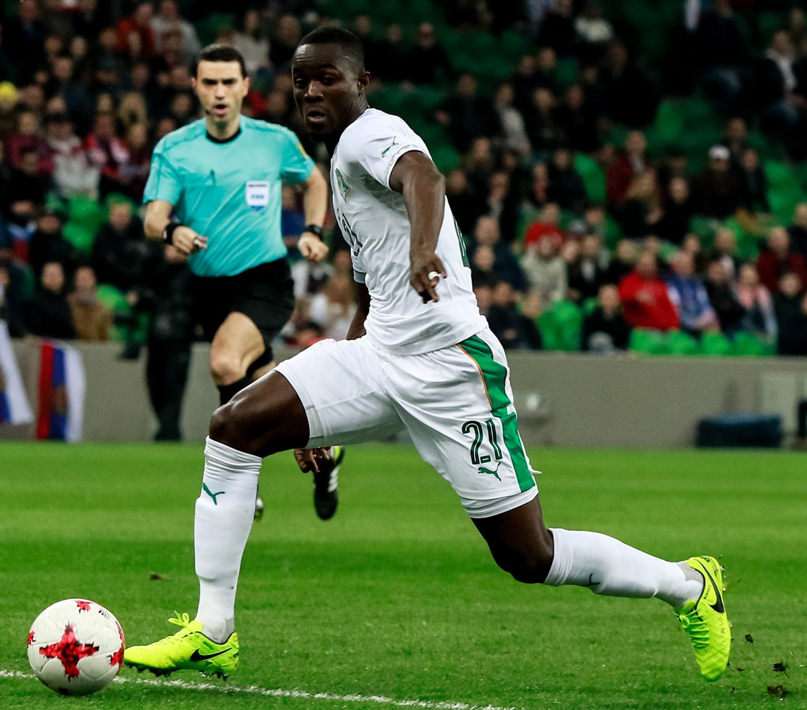 Eric Bertrand Bailly